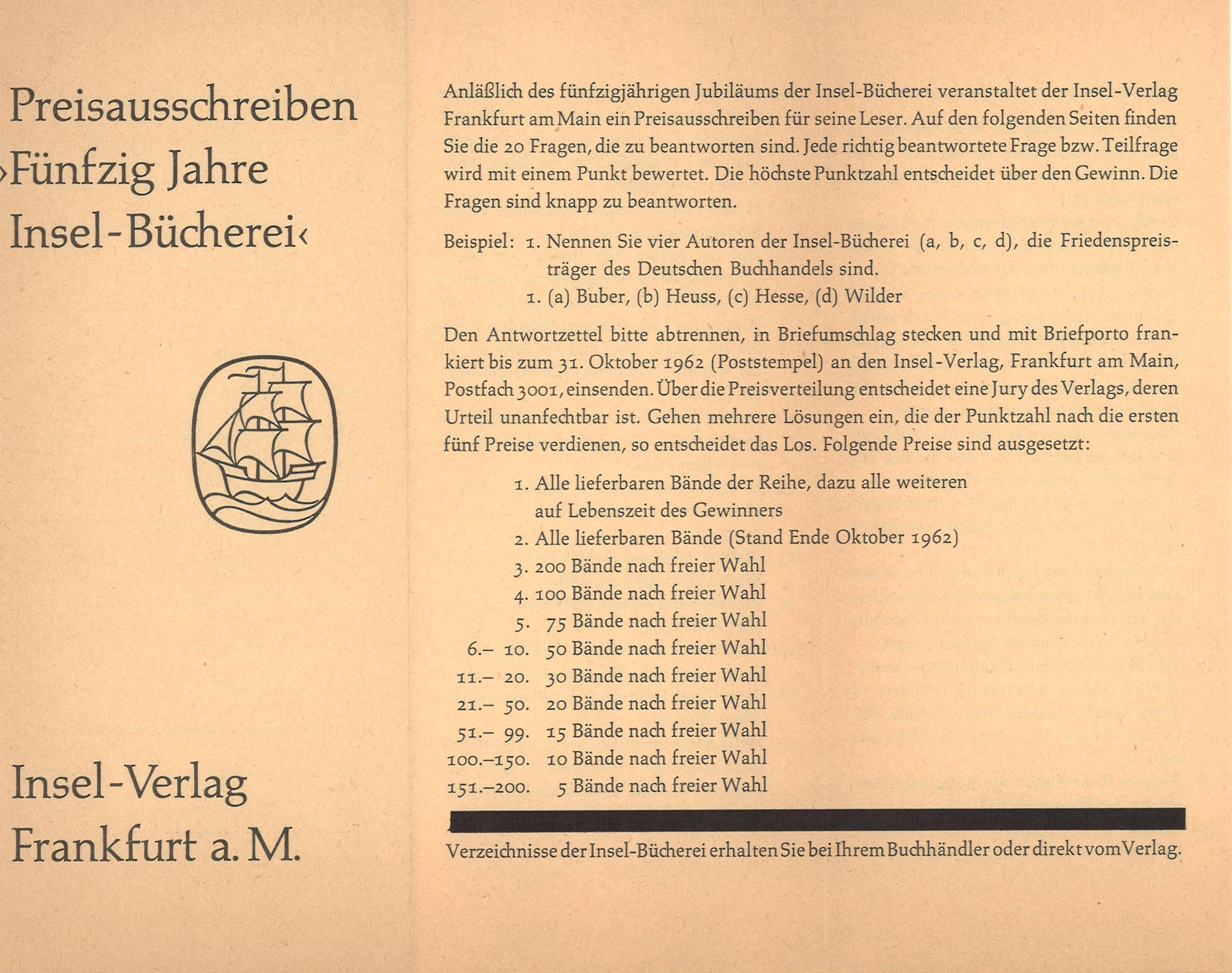 Conditions for participation in a contest for the Insel-Bücherei 1962